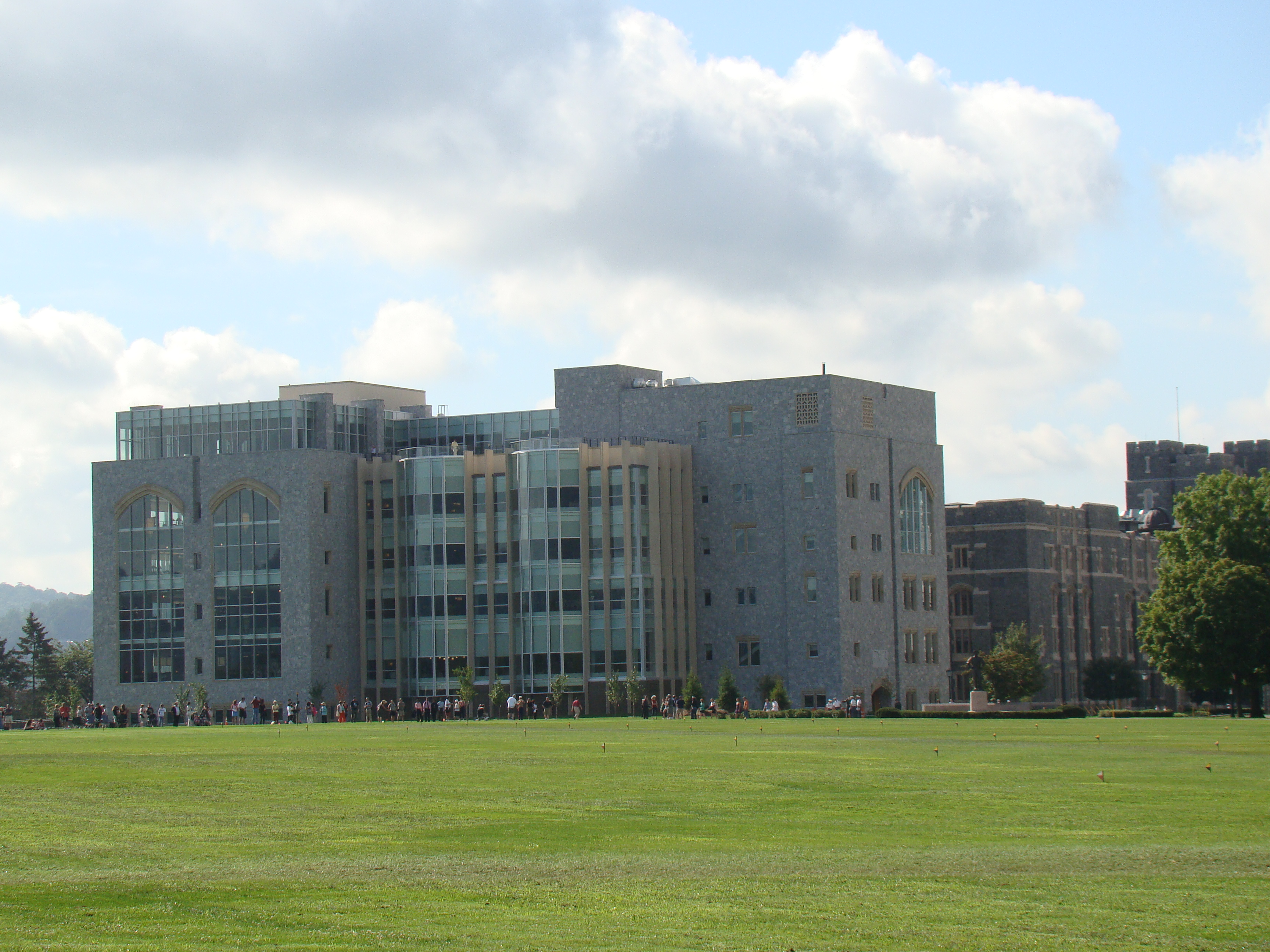 West Point's New Library, Jefferson Hall